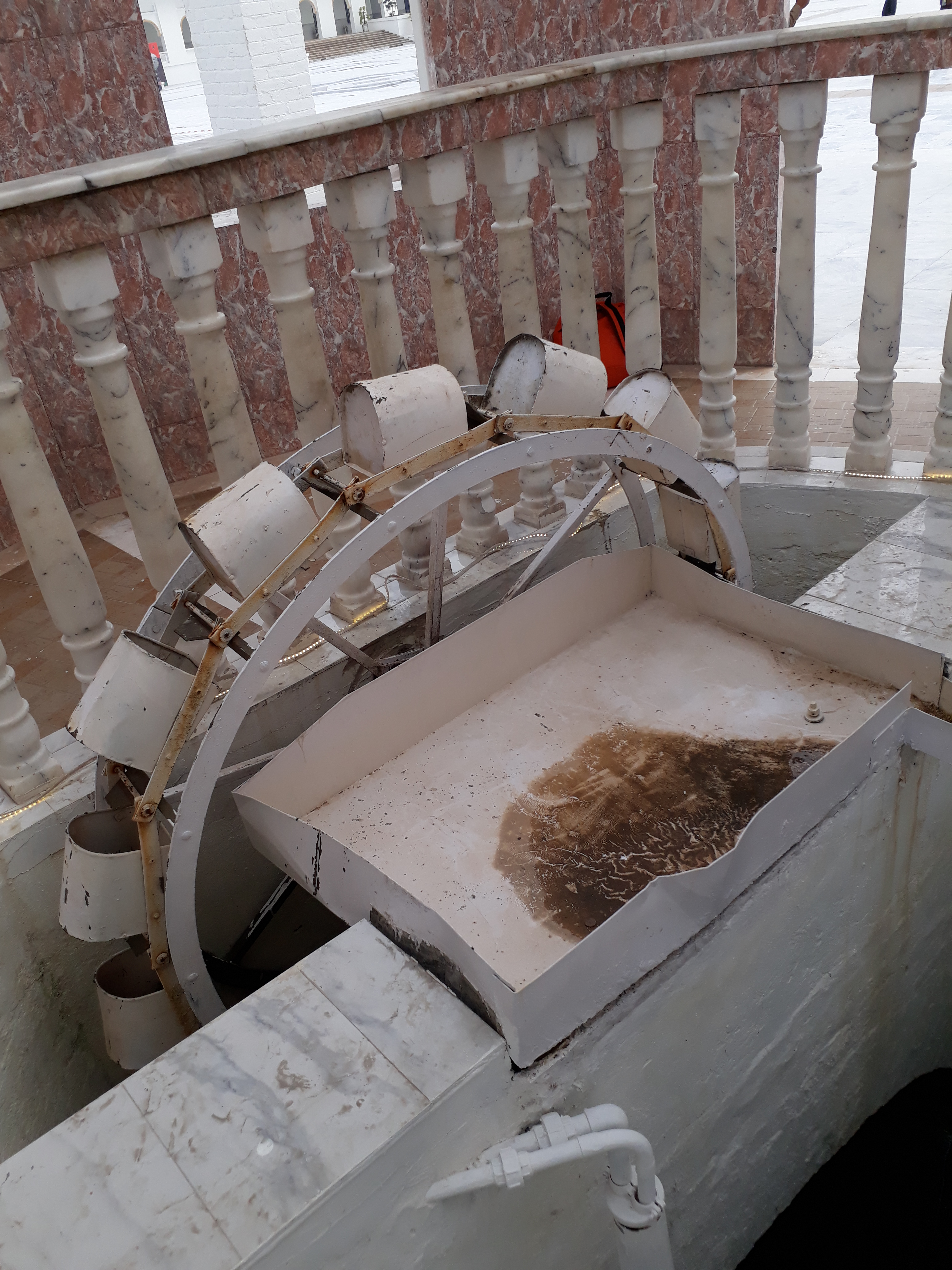 Persian wheel was used to drive the well